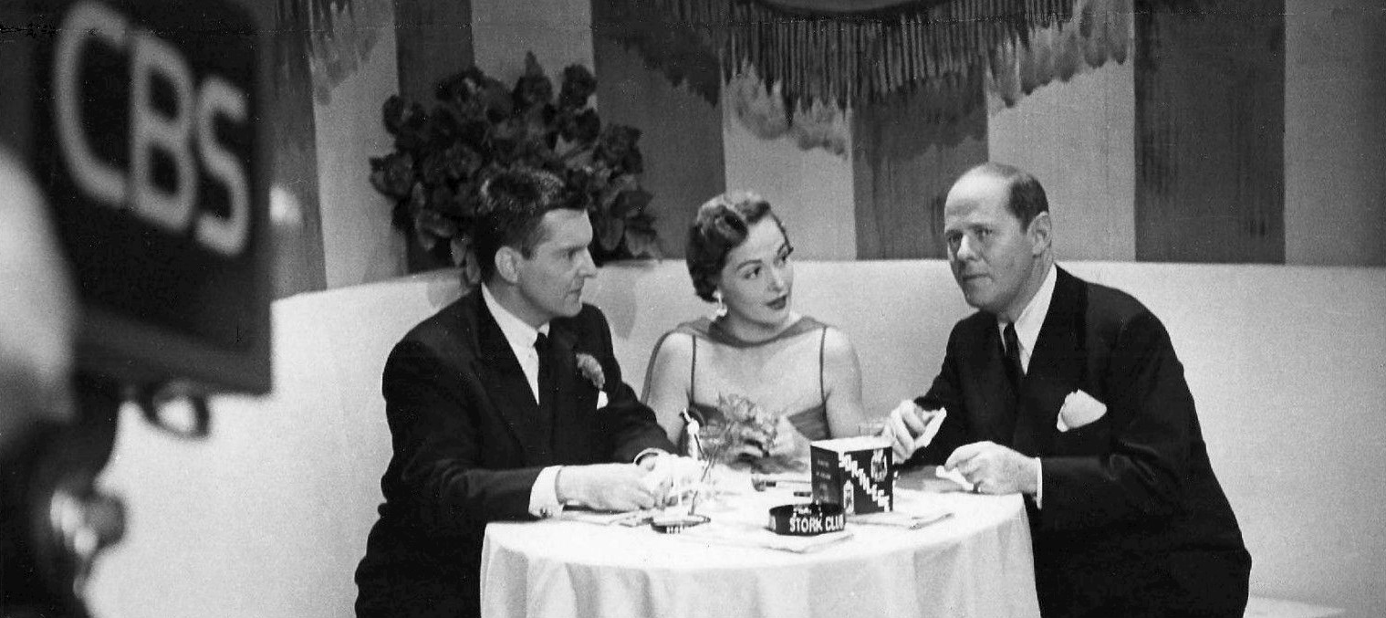 Photo of Peter Lind Hayes, Mary Healy, and Sherman Billingsley at Billingsley's restaurant, The Stork Club. In 1950, CBS began a live program from the building with husband and wife Hayes and Healy and Billingsley as regulars. Hayes and Healy served as a type of "anchor" team while Billingsley hopped tables and chatted. The viewing public believed the show was being done live from the restaurant's private dining room, The Cub Room. However, it was not. CBS built a replica of the famed room on the sixth floor of the building to serve as the television studio the program was actually broadcast from. After 5 years, CBS dropped the show and ABC picked it up, using the CBS built studio. In May of that year, Billingsley made some remarks about fellow restaurateur Toots Shor's honesty and financial solvency on a live broadcast. ABC ended the program after the remarks in 1955. Billingsley was never truly at ease on camera and it seems to show in this promotional photo.